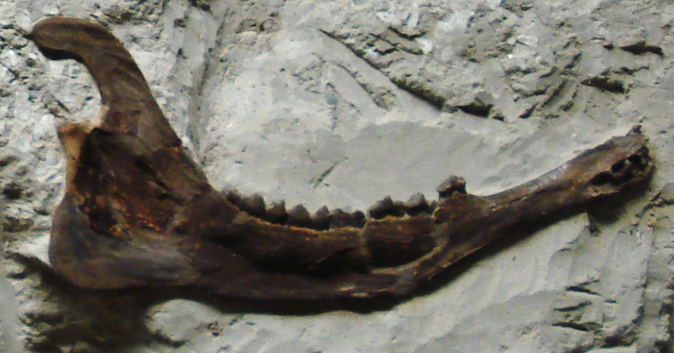 fossil of amphitragulus